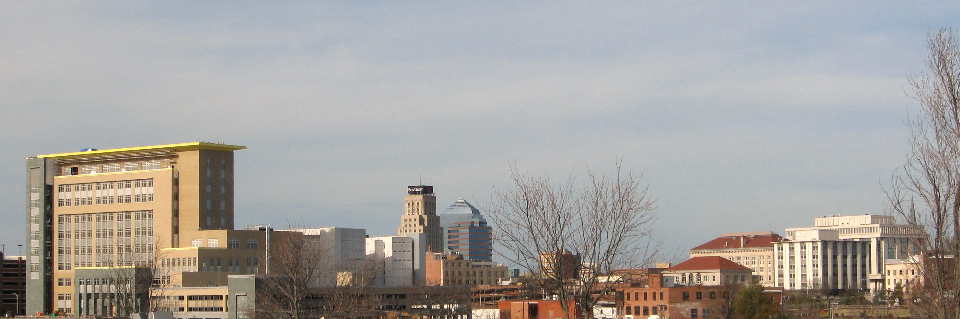 Durham skyline from the south